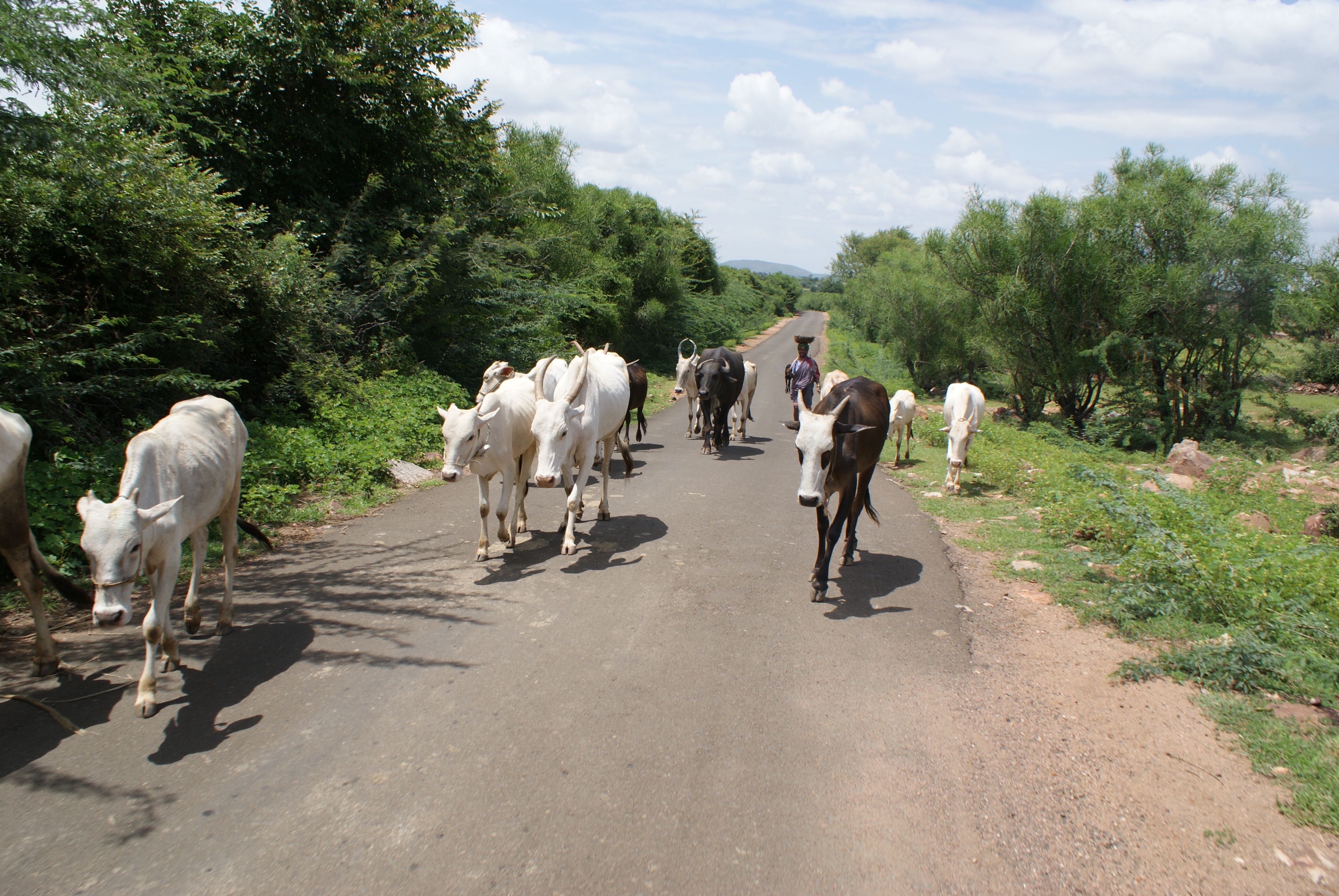 Cattle on a rural road between Aihole and Pattakadal in Bagalkot District, Karnataka, India.